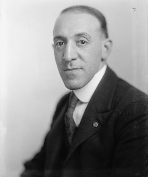 Lester D. Volk, Congressman from New York.